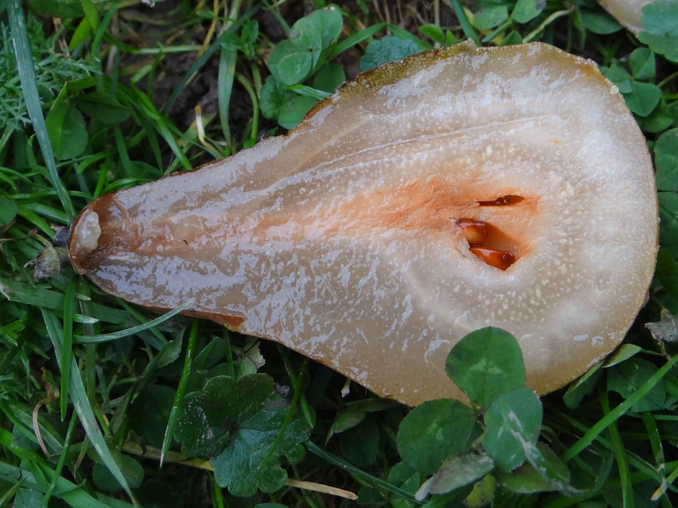 Rotten pear